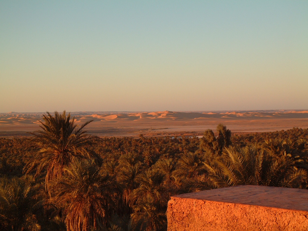 Timimoun (Algeria): oasis, sabkha, and the beginning of the Grand Erg Occidental, at dusk.